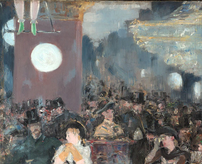 A Bar at the Folies-Bergère, detail III